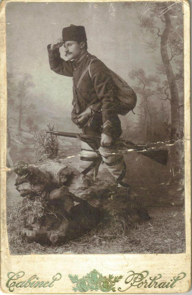 Portrait of Mihail Nikolov - IMARO Voivoda